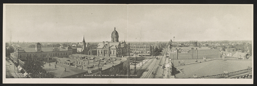 Bird's-eye view of Findlay, Ohio Date Created Published- Brooklyn, N.Y. - The Albertype Co. ; c.1906